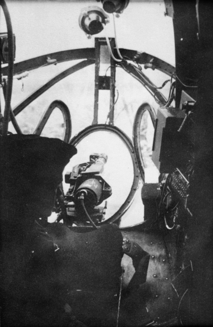 AWM caption : FOULSHAM, ENGLAND. 1945. MARK XIV BOMB SIGHT OF A HANDLEY PAGE HALIFAX B MARK III AIRCRAFT OF NO. 462 SQUADRON RAAF.